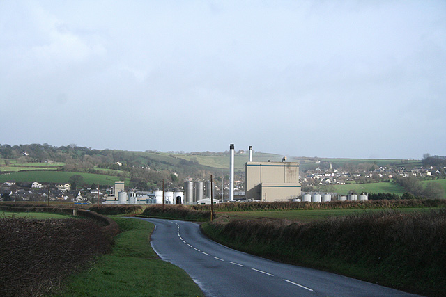 North Tawton: Taw Valley Creamery Cheese factory: looking east-north-east with North Tawton village on the hill beyond